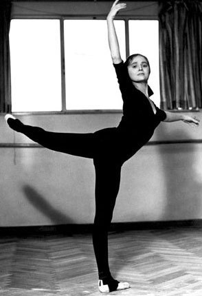 Dance position with Dance writing